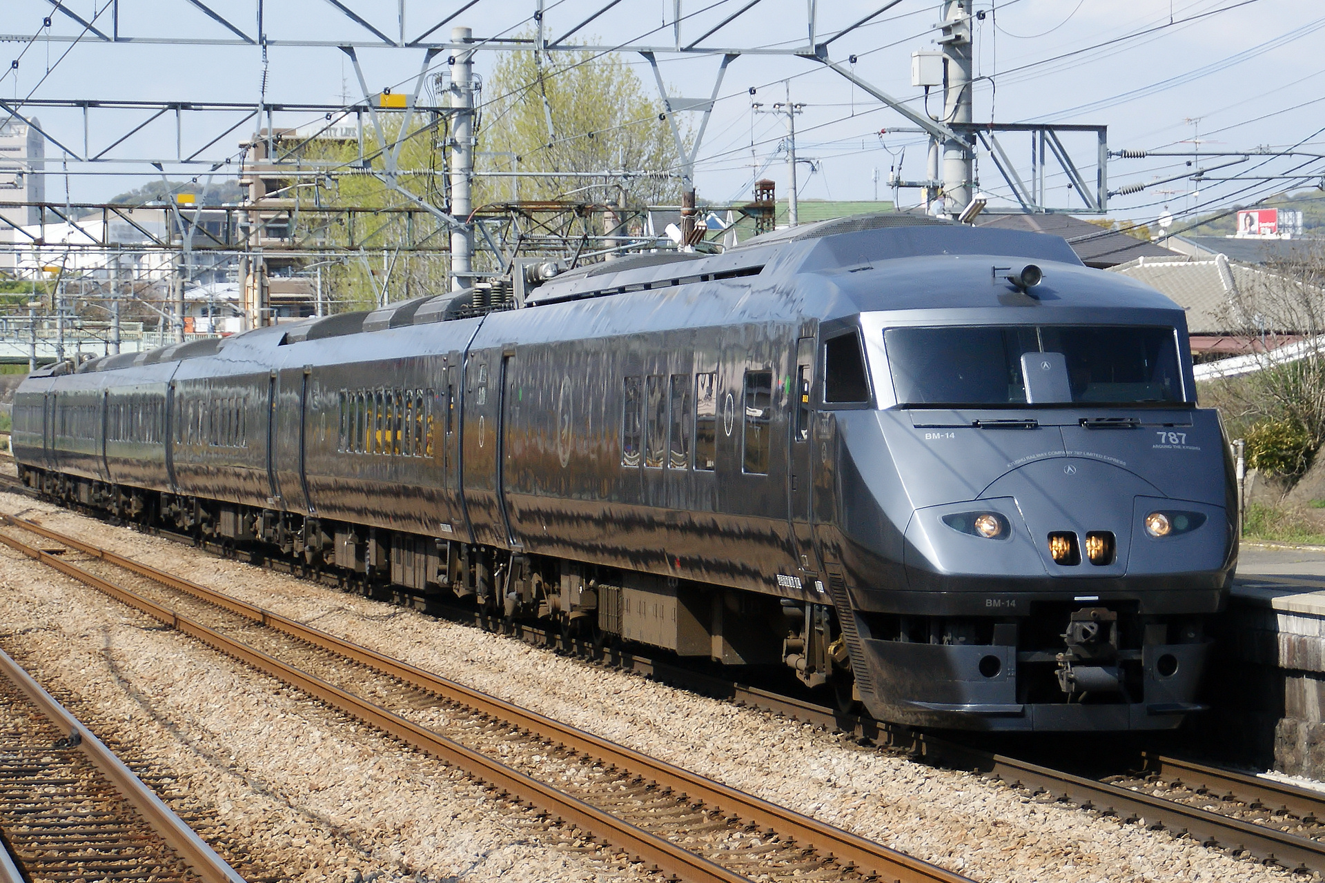 JR Kyushu 787 series EMU set BM-14 passing Kashii Station on a Kirameki limited express service